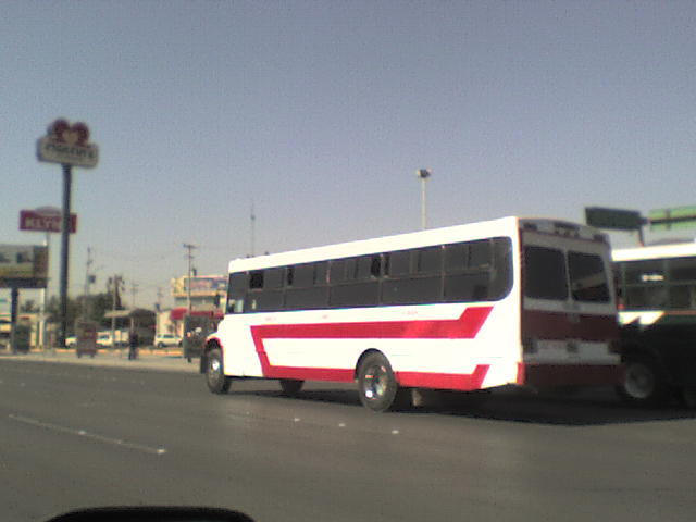 A Transportes del Nazas Bus.